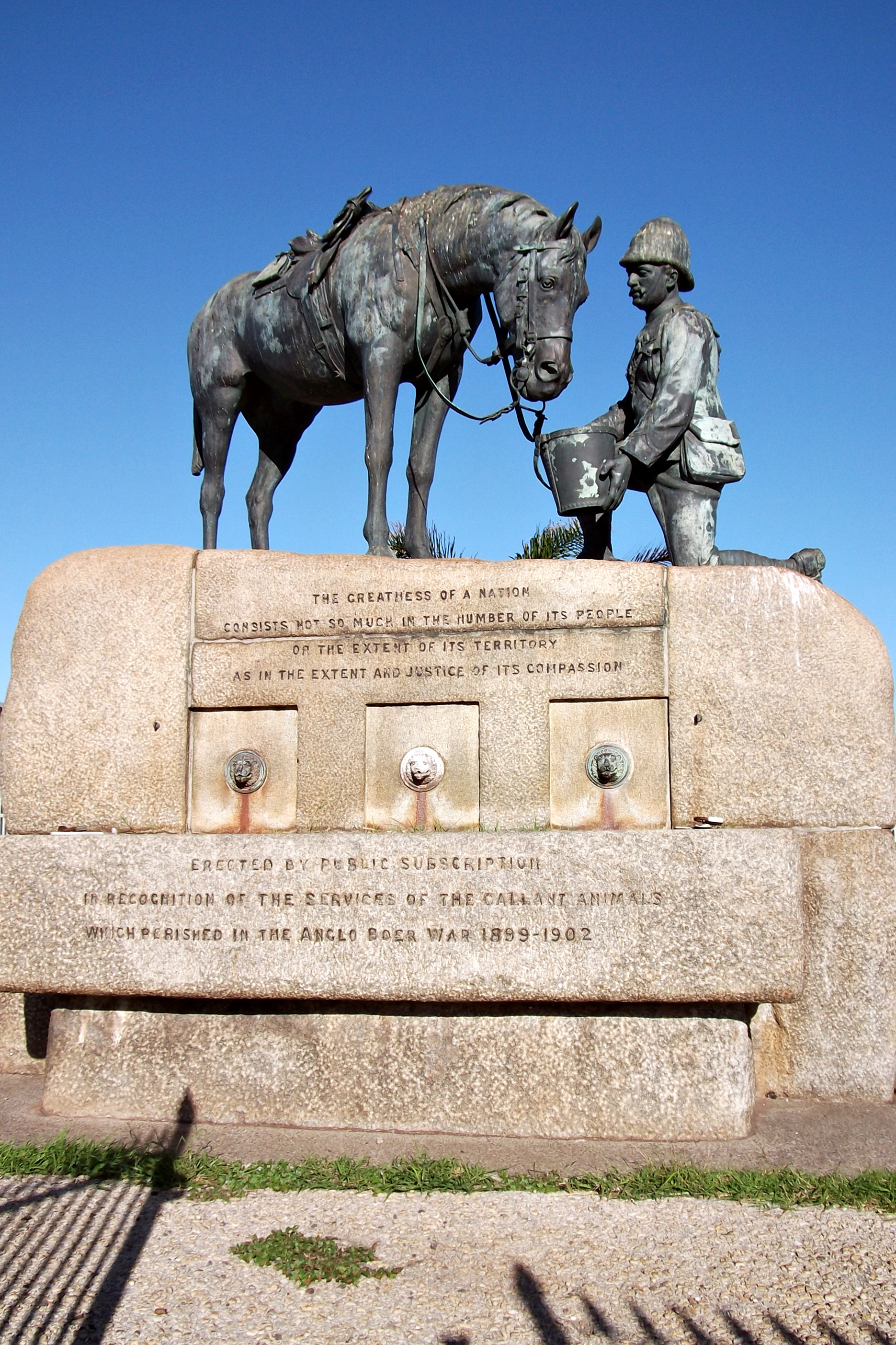 The Horse Memorial (Cape Road, Port Elizabeth, South Africa) bears the words: "greatness of a nation consists not so much in the number of its people or the extent of its territory as in the extent and justice of its compassion" "erected by public subscription in recognition of the services of the gallant animals which perished in the anglo boer war 1899-1902" This media shows a South African Protected Site with SAHRA file reference 9/2/073/0033.